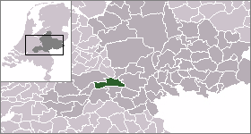 Locator map of Dutch municipalities in Gelderland (LocatieNeder-Betuwe.png)